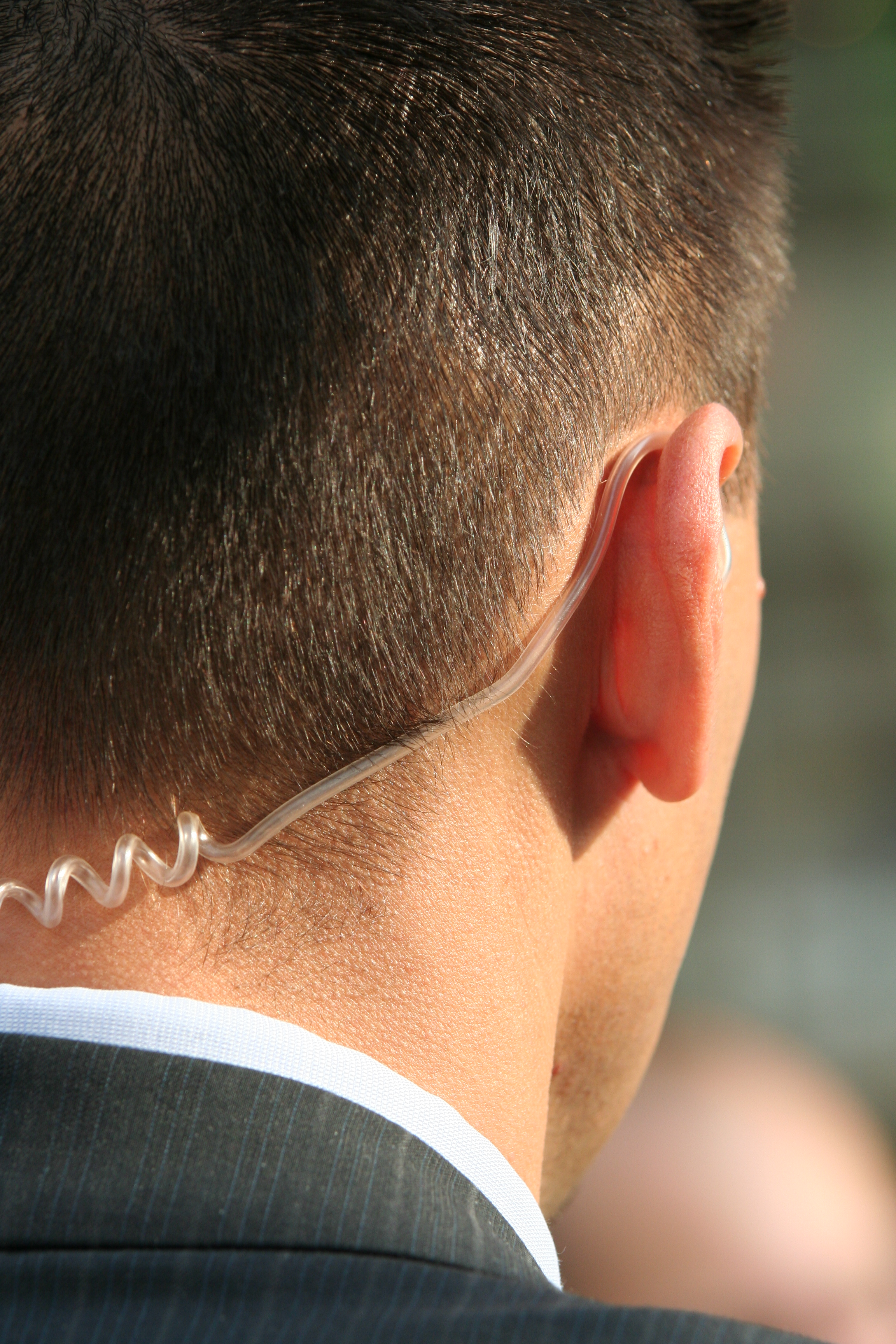 Bodyguard of the BKA